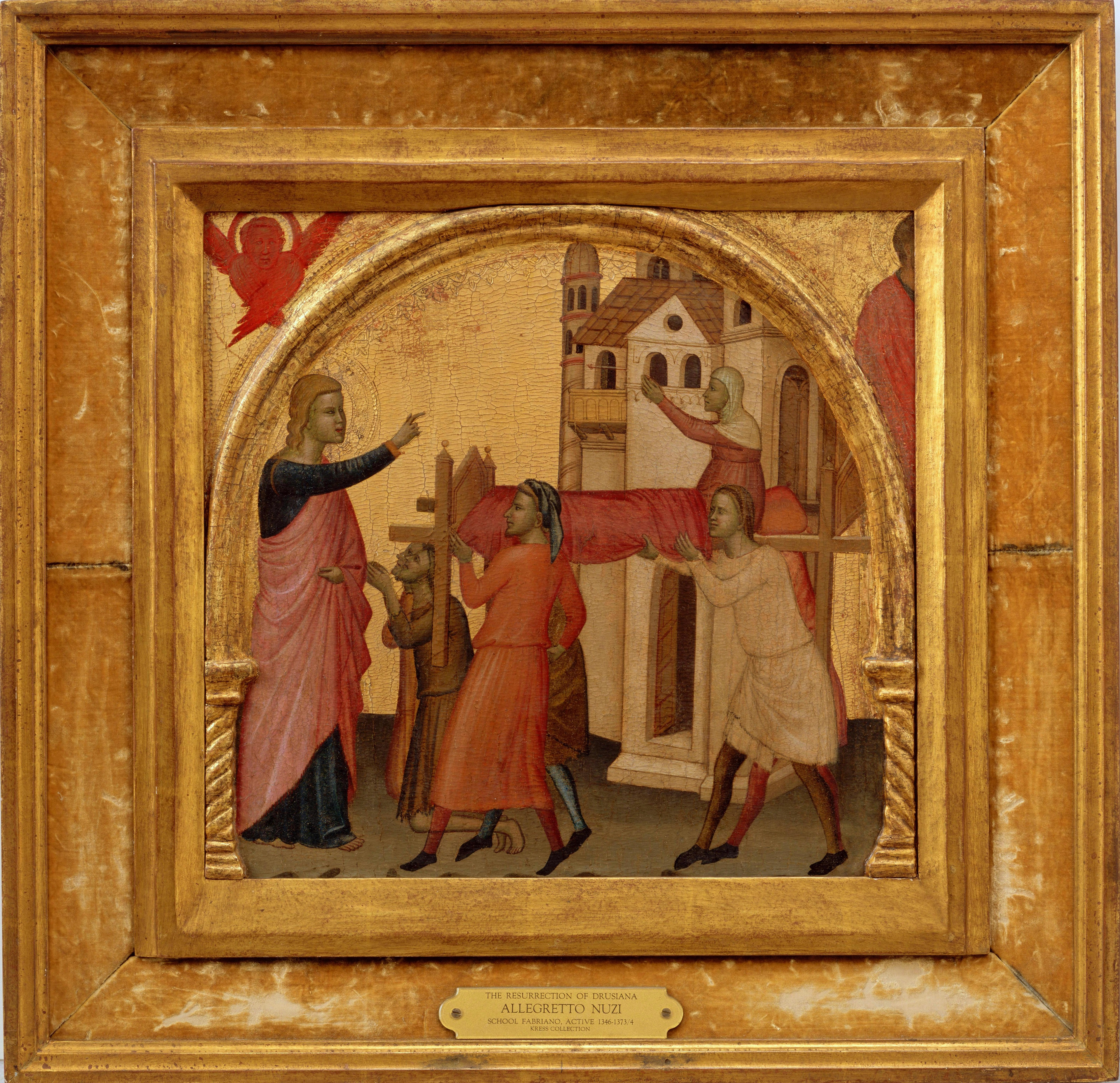 Allegretto Nuzi, The Resurrection of Drusiana, ca. 1370, Portland Art Museum